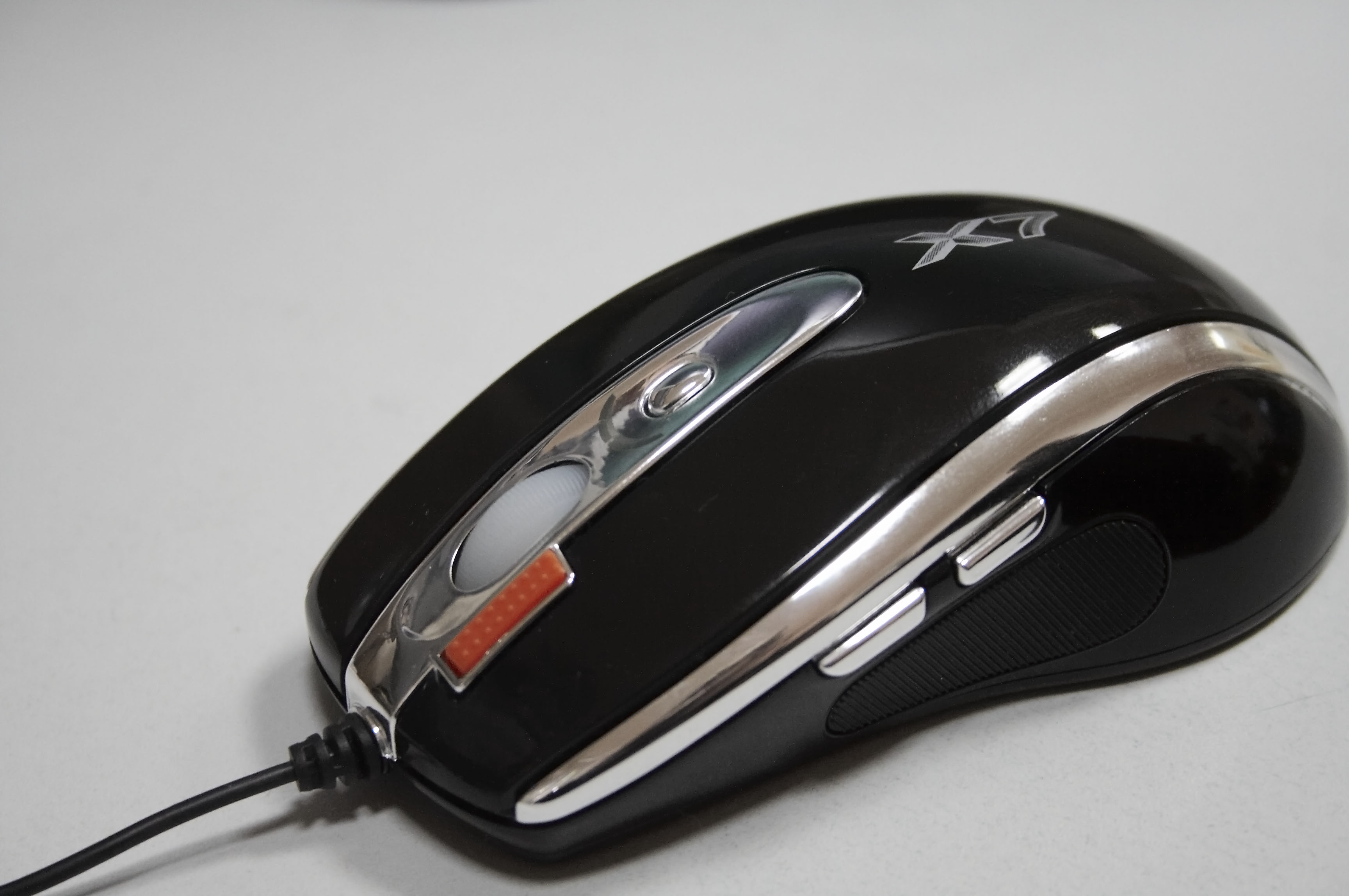 A4Tech X7 (X-750F) gamer's laser mouse with 4 extra buttons (Forward/back, triple click, 5 or 6 dpi shift)